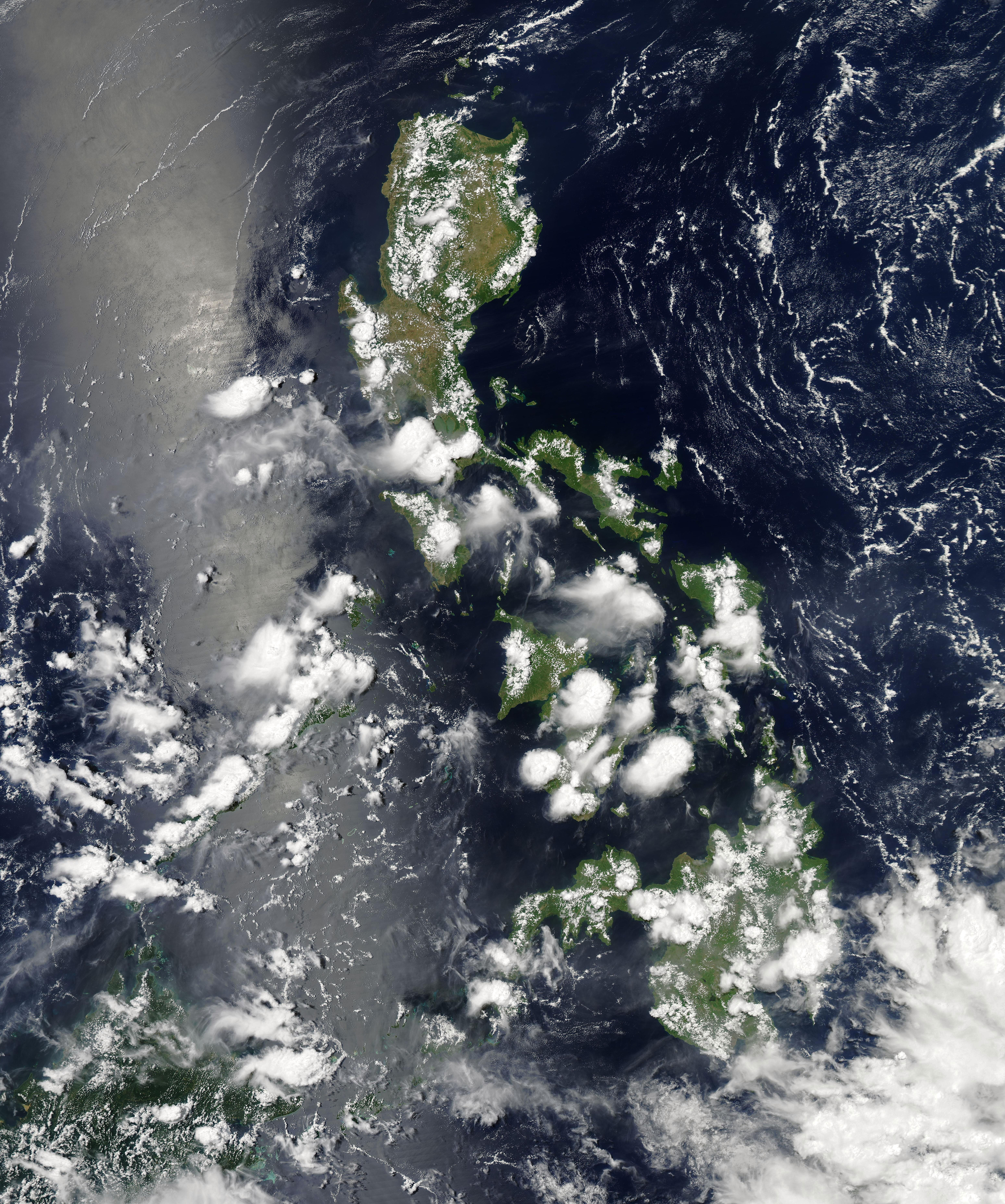 Thunderstorms over the Philippines - NASA satellite photograph